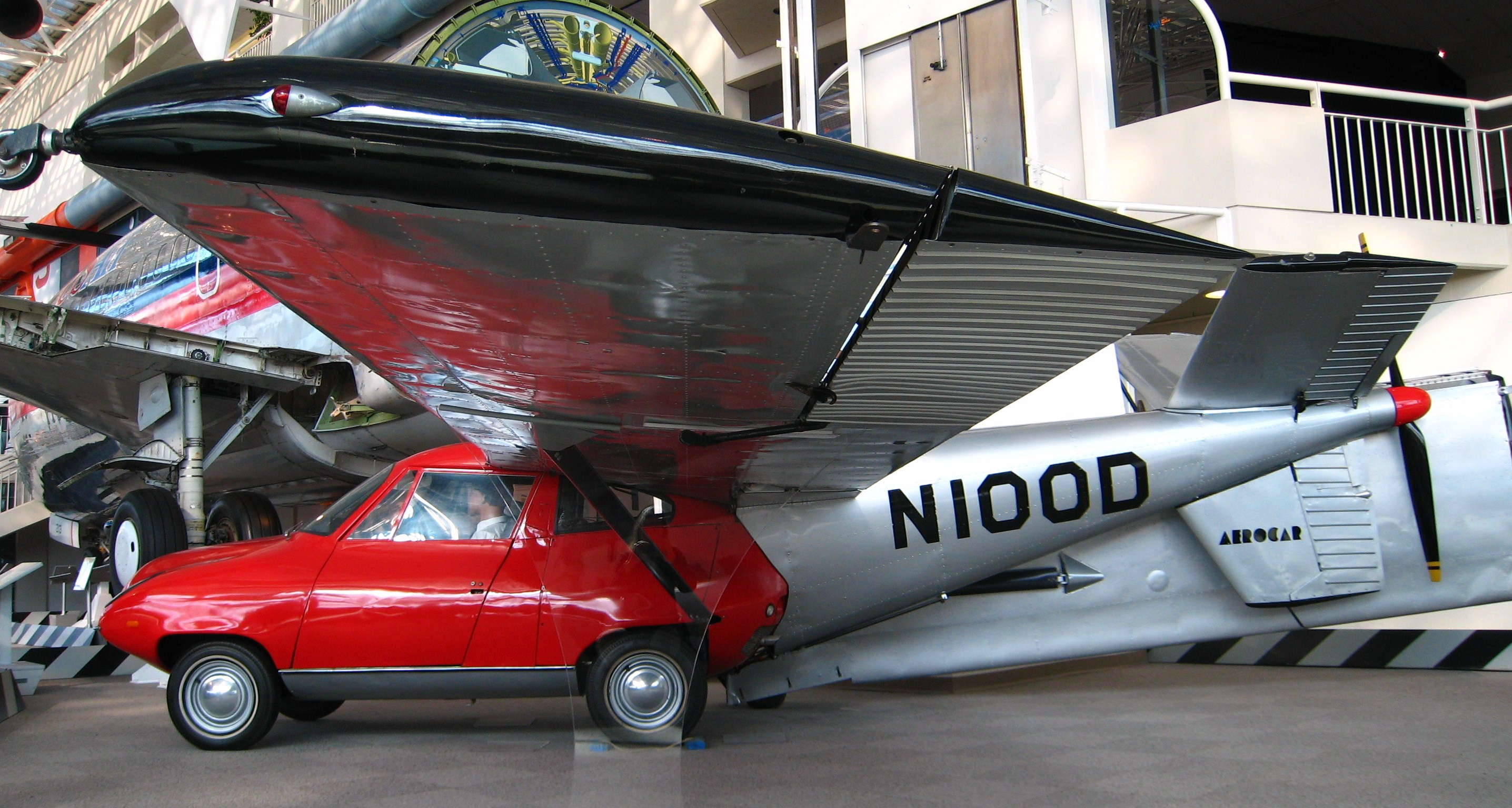 The Taylor Aerocar III at The Museum of Flight in Seattle, WA.